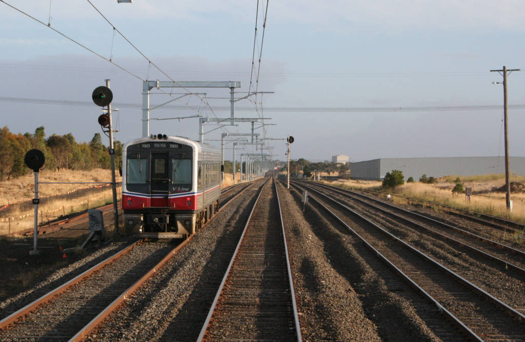 Sprinter (Victorian train) travelling along the Craigieburn railway line, Melbourne beside Somerton Loop, at the down end of Roxburgh Park station.